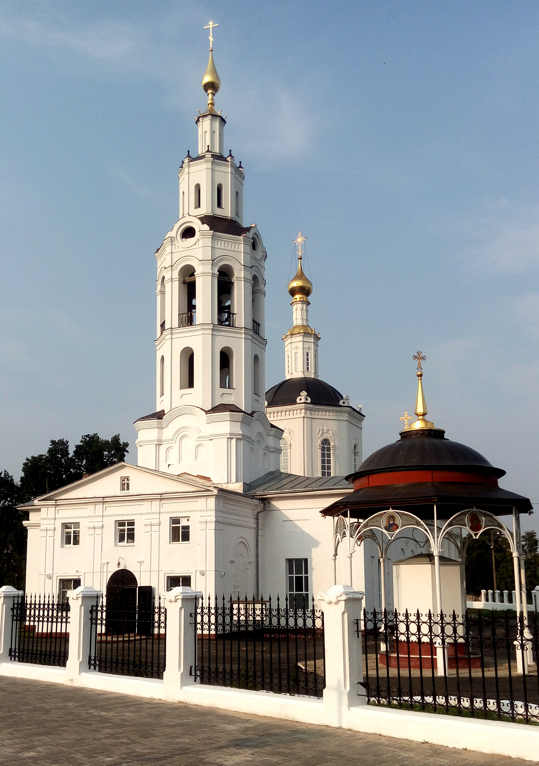 Epiphany Cathedral, Oryol, Russia. 2016.